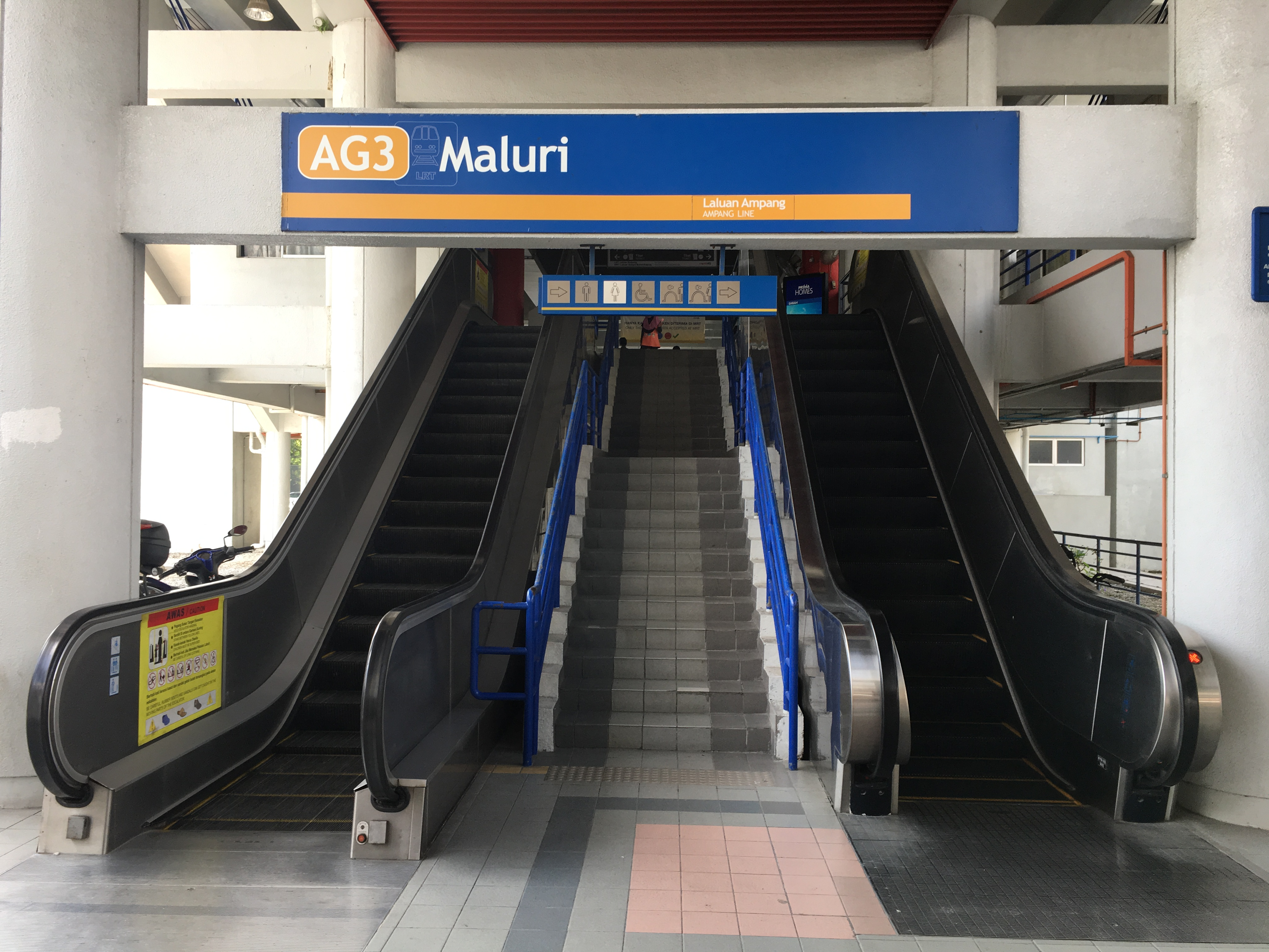 Entrance to the LRT station at the south side of Jalan Cheras